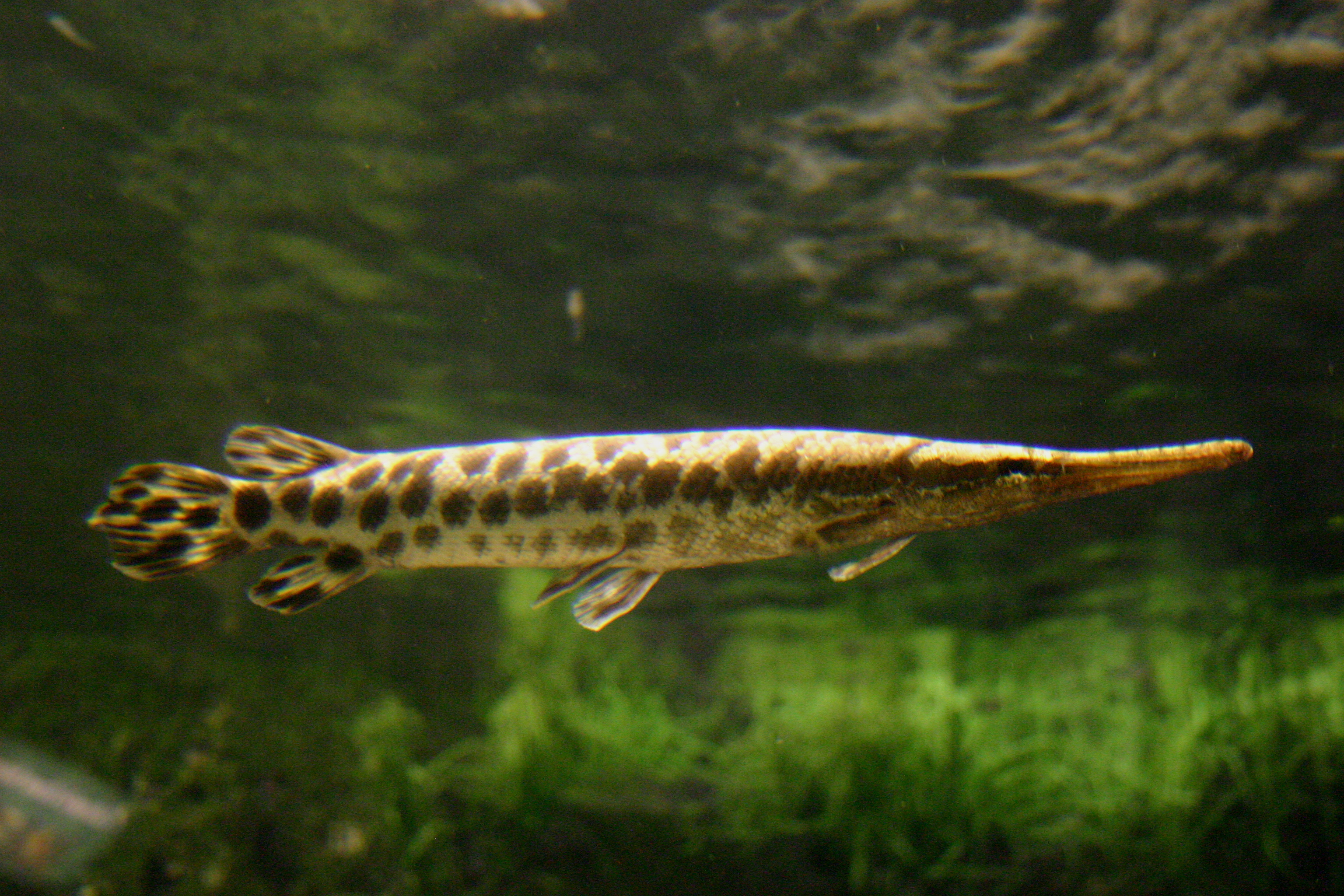 Lepisosteus oculatus by Brian Gratwicke